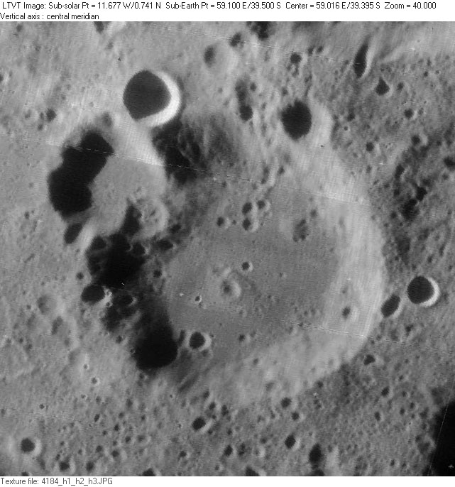 Crater Fraunhofer. Detail from Lunar Orbiter IV-184H. High resolution scans from the USGS Lunar Orbiter Digitization Project remapped to a north-up aerial view by LTVT.